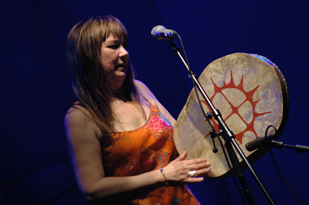 Mari Boine peforming in Warszawa, Poland in September 2007